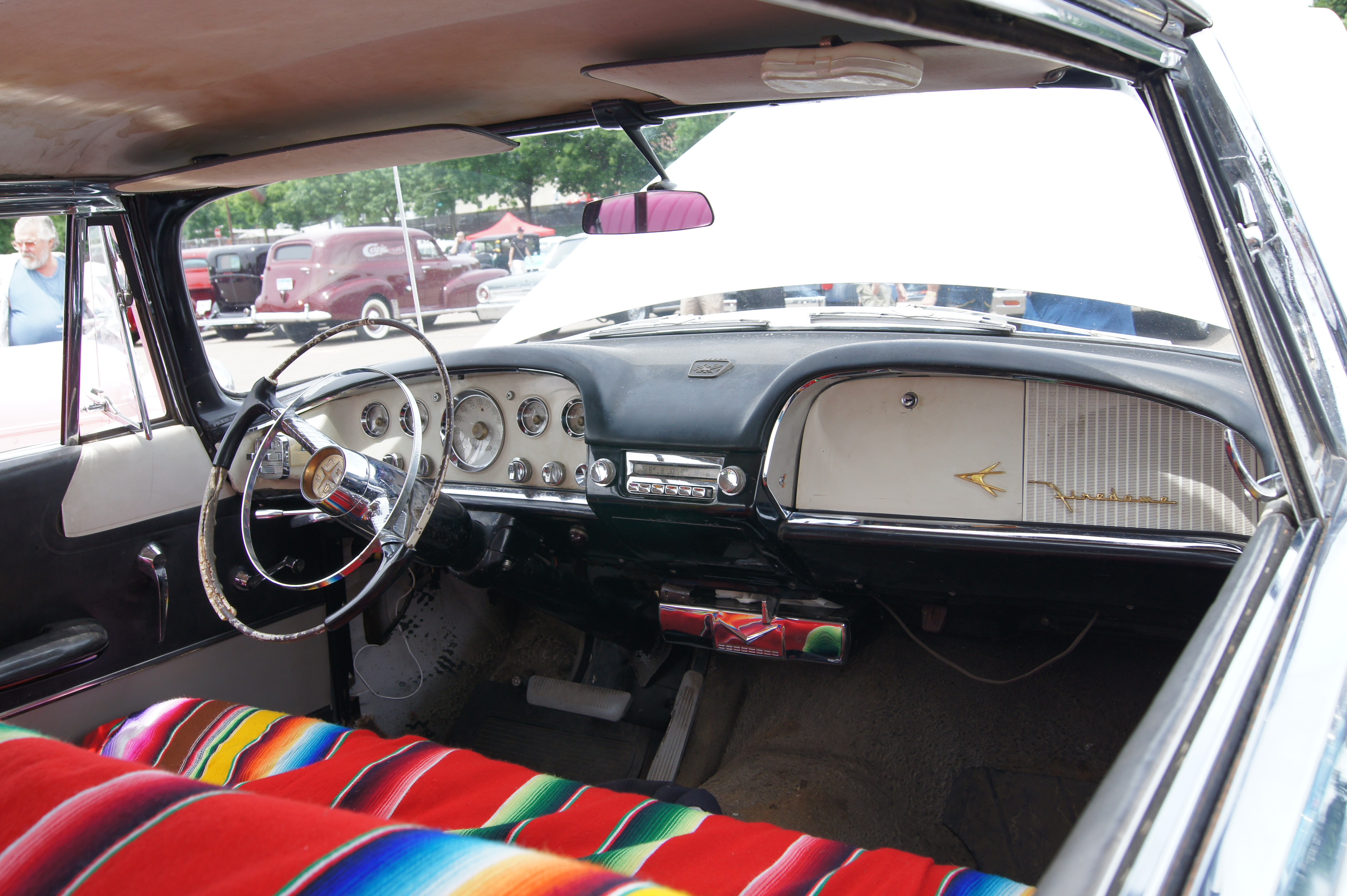 MSRA “BACK TO THE 50′s” 40th ANNIVERSARY June 21-23, 2013 State Fairgrounds St. Paul Minnesota More Car Pictures